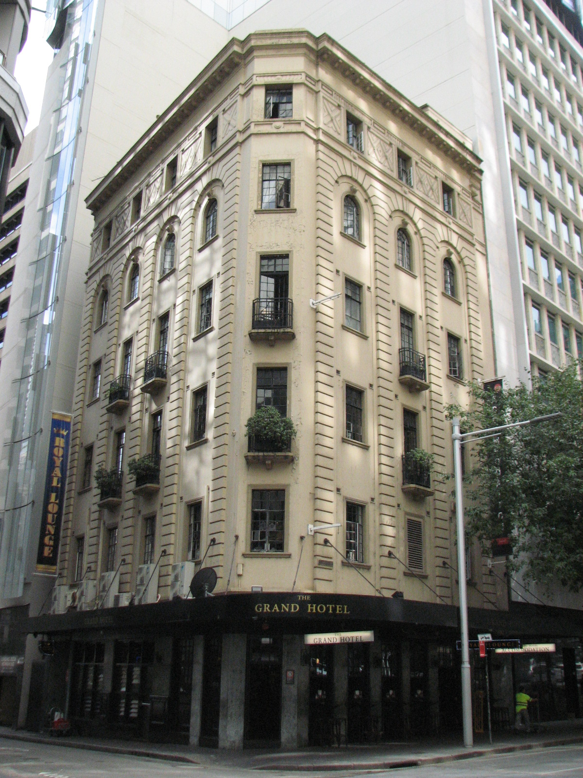 The Grand Hotel, Sydney (former) is part of the Little Hunter and Hamilton Street Precinct, which includes properties facing Hunter Street, Sydney. It is listed on the New South Wales State Heritage Register.